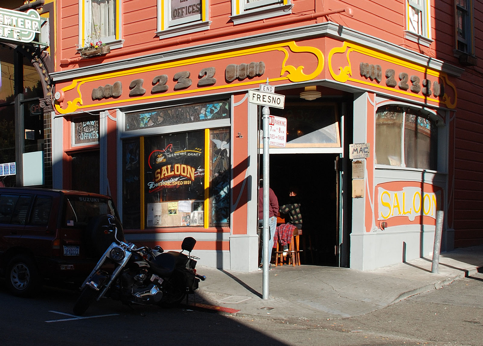 The Saloon, located at 1232 Grant Avenue in North Beach in San Francisco, is currently the oldest saloon of San Francisco and for decades has offered dancing and live music.